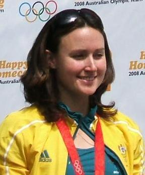 Jacqueline Lawrence at the 2008 Olympic homecoming parade in Adelaide